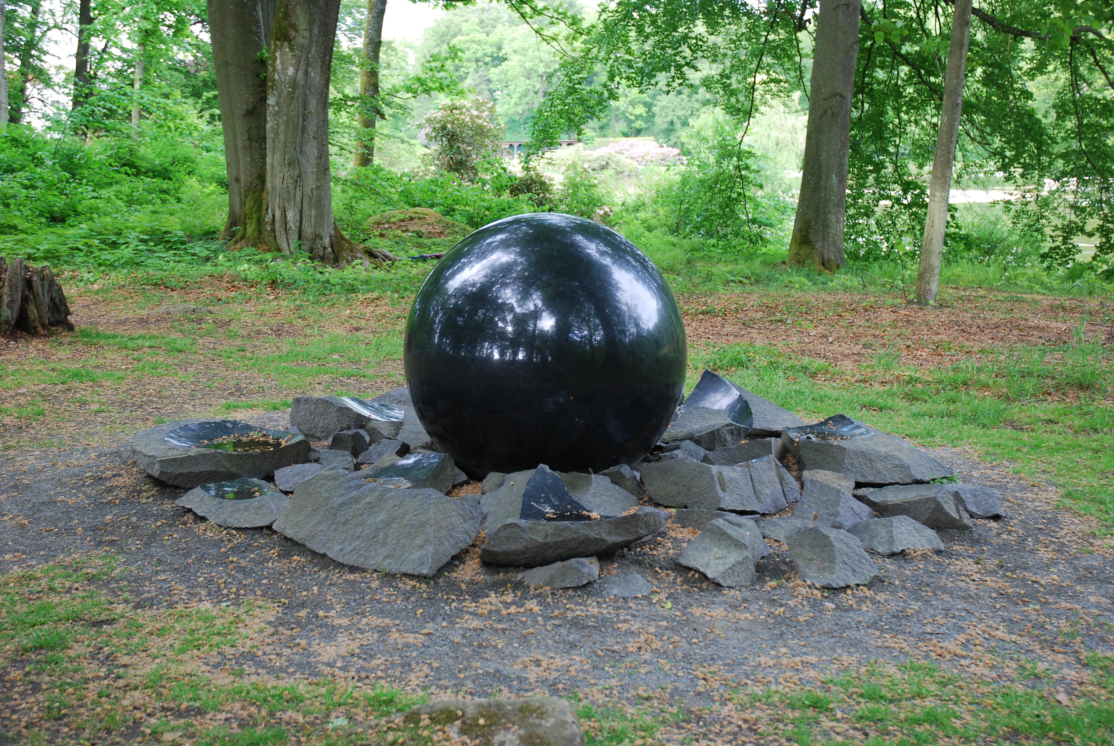 Pål Svensson´s Sprungen ur (Brought out of), diabas ("black granite"), Wanås Castle, Sweden